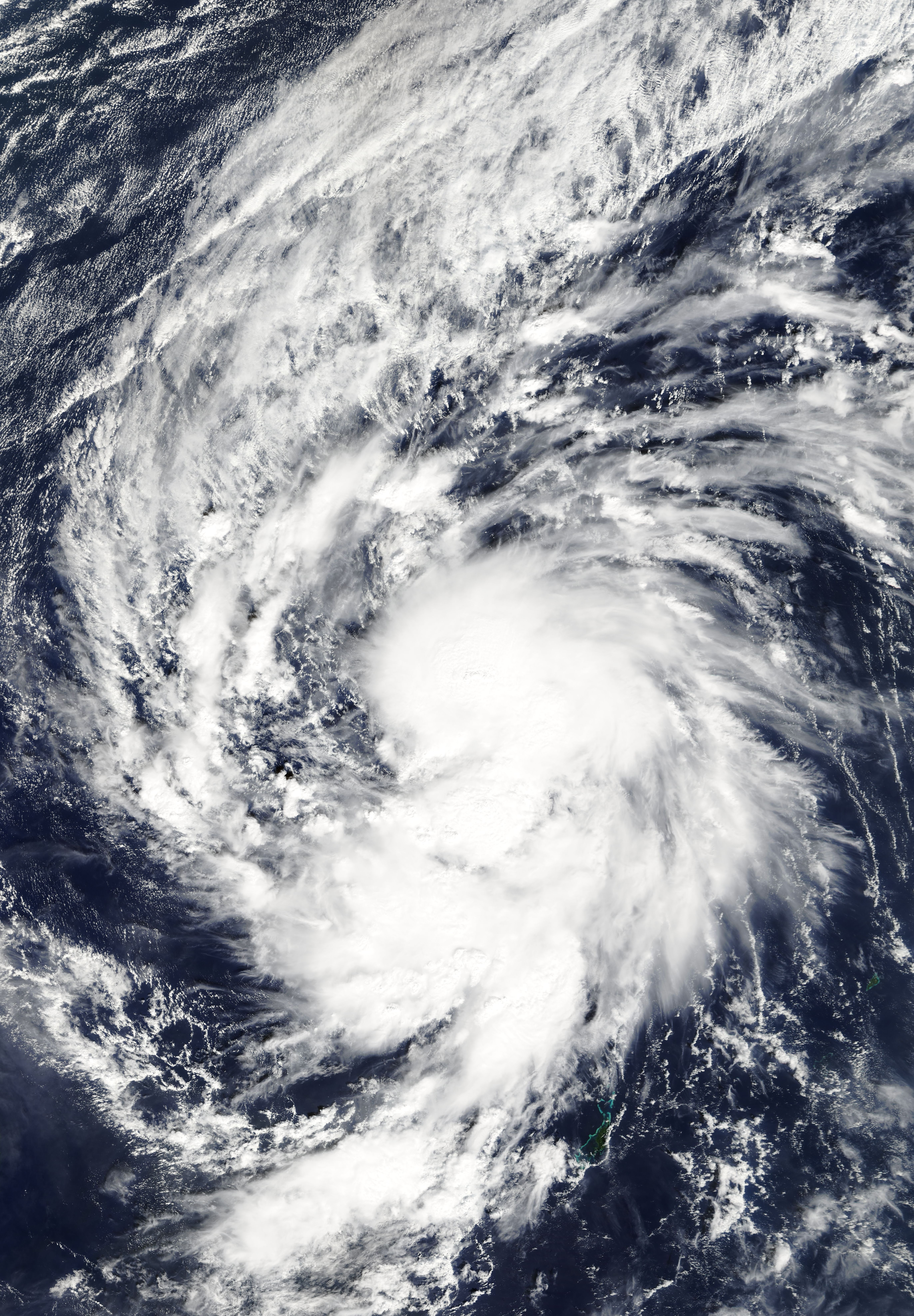 Severe Tropical Storm Dolphin of 2008 of 14th Dec, 2008. 中文（香港）: 2008年12月14日的熱帶風暴白海豚。